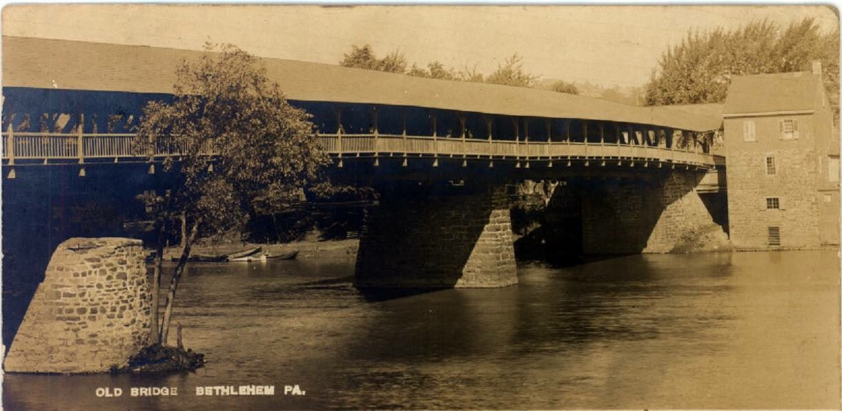 Old Bridge, Bethlehem, Pennsylvania (covered bridge from Wyandotte Street to Main Street over Lehigh River)